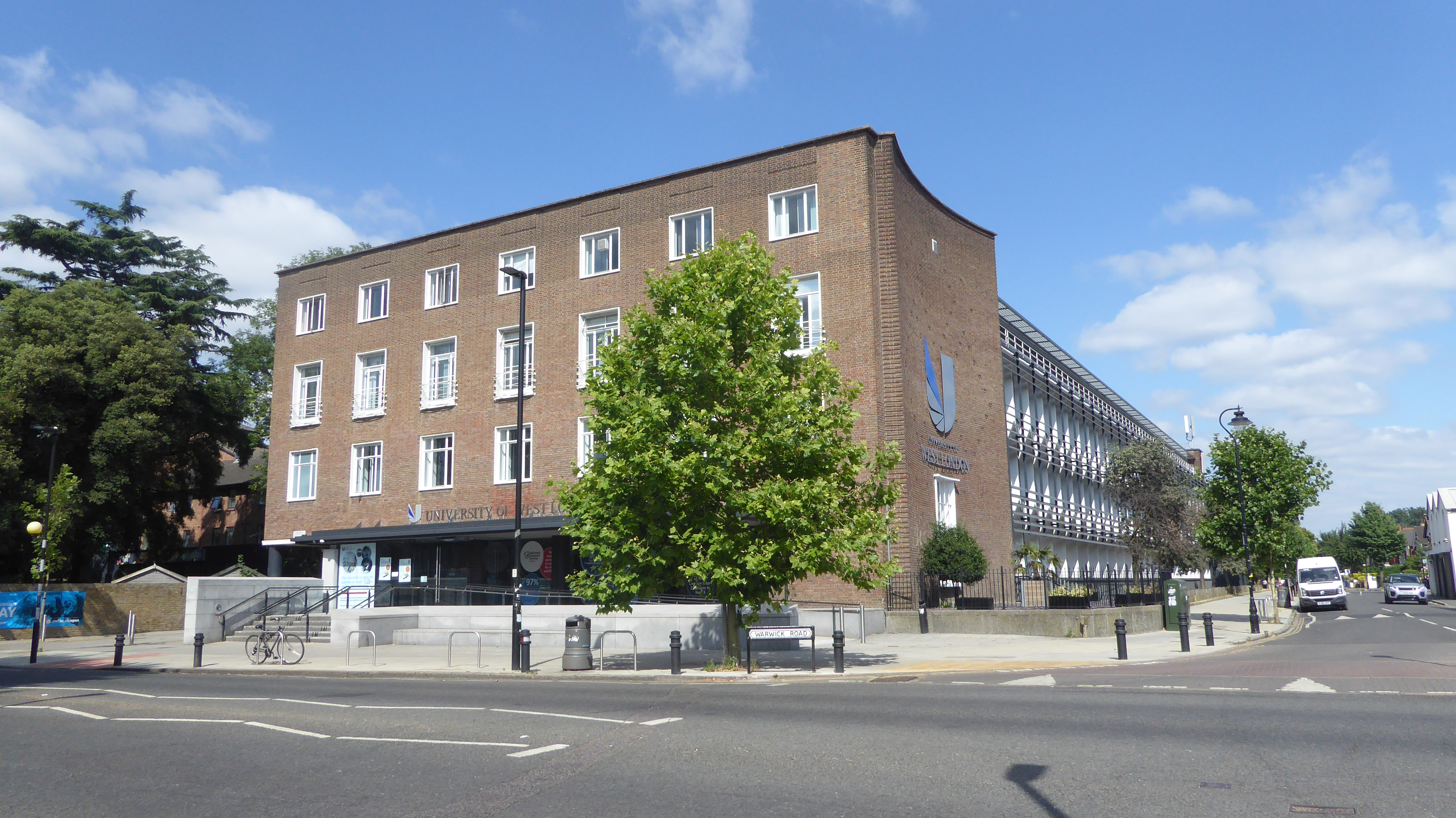 The University of West London campus building near South Ealing station.